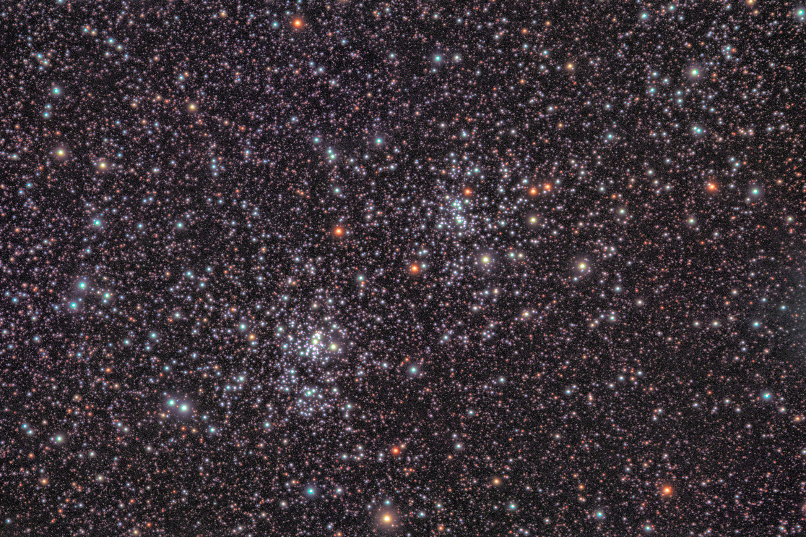 The Double Clusters in Perseus (Caldwell 14), comprised of NGC 869 (h Persei) and NGC 884 (χ Persei)